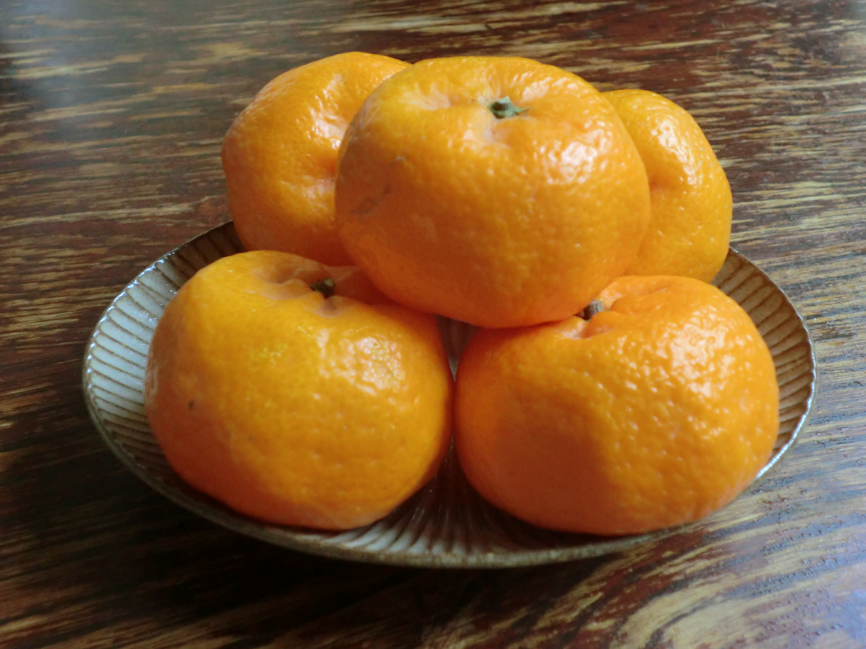 Sakurajima Mikan(Sakurajima Komikan), small orange produced at Sakurajima island, Kagoshima, Japan.